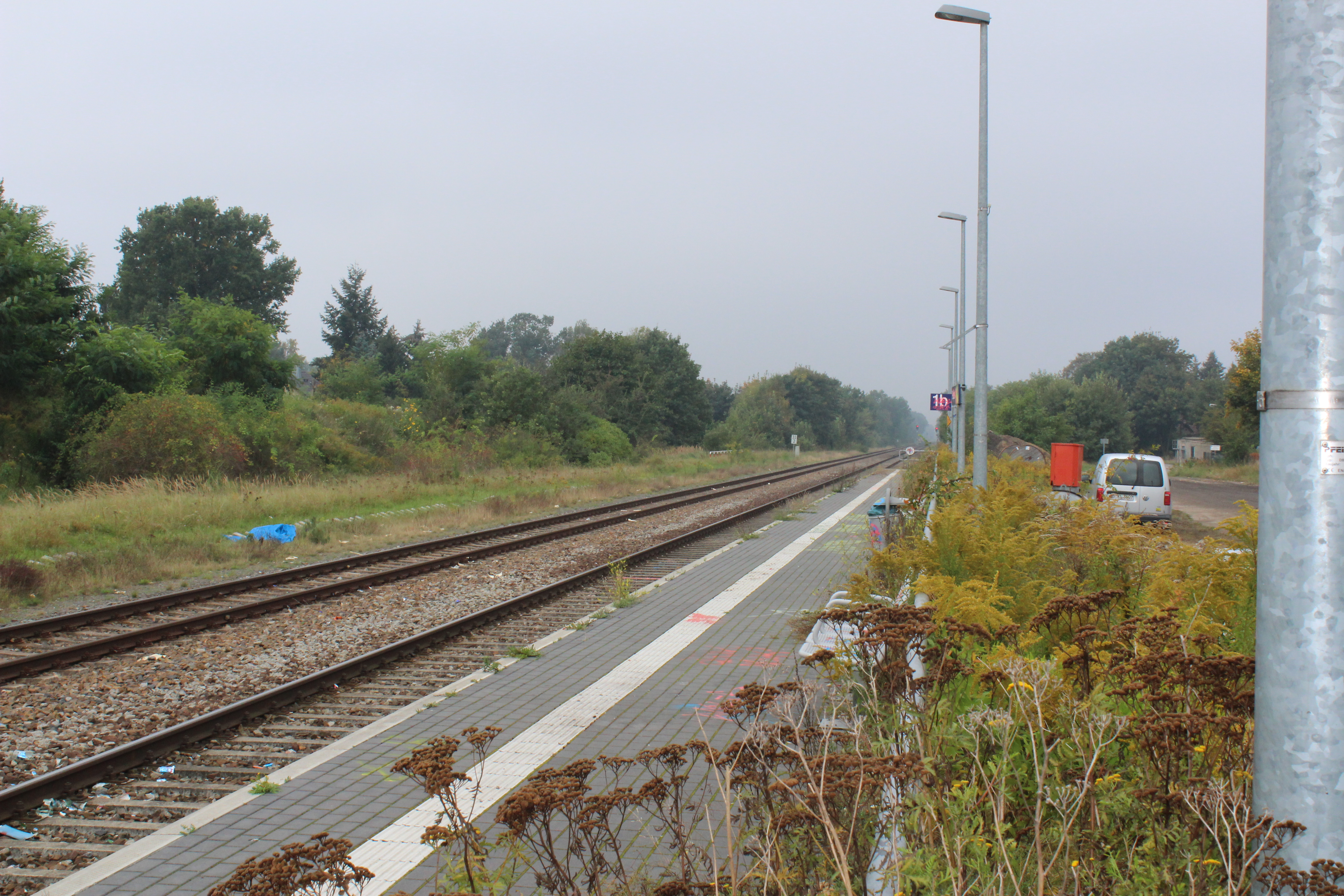 train station Rehfelde, platforms